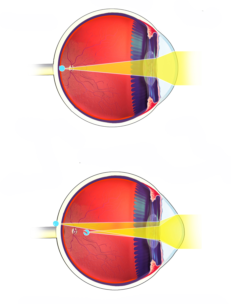 Astigmatism. This is an edited version of the source image made for use in the "Anatomist" iOS and Android app and shared here under the terms of the source image's Share Alike Creative Commons license.